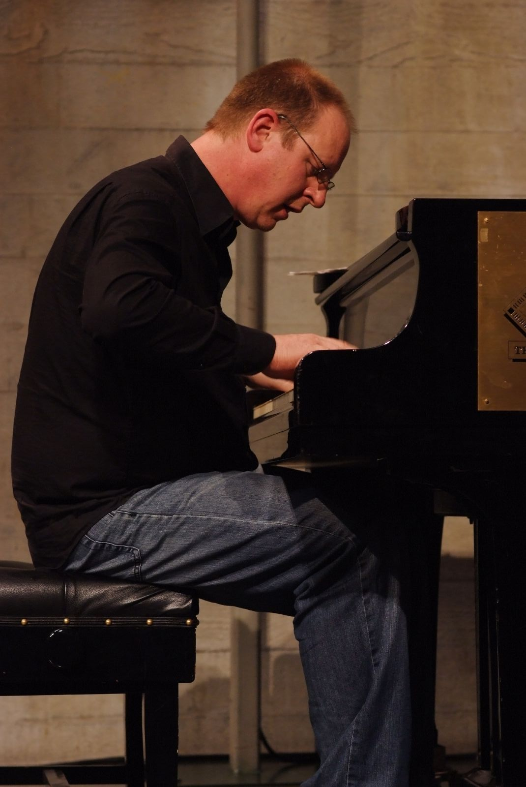 Robin Aspland